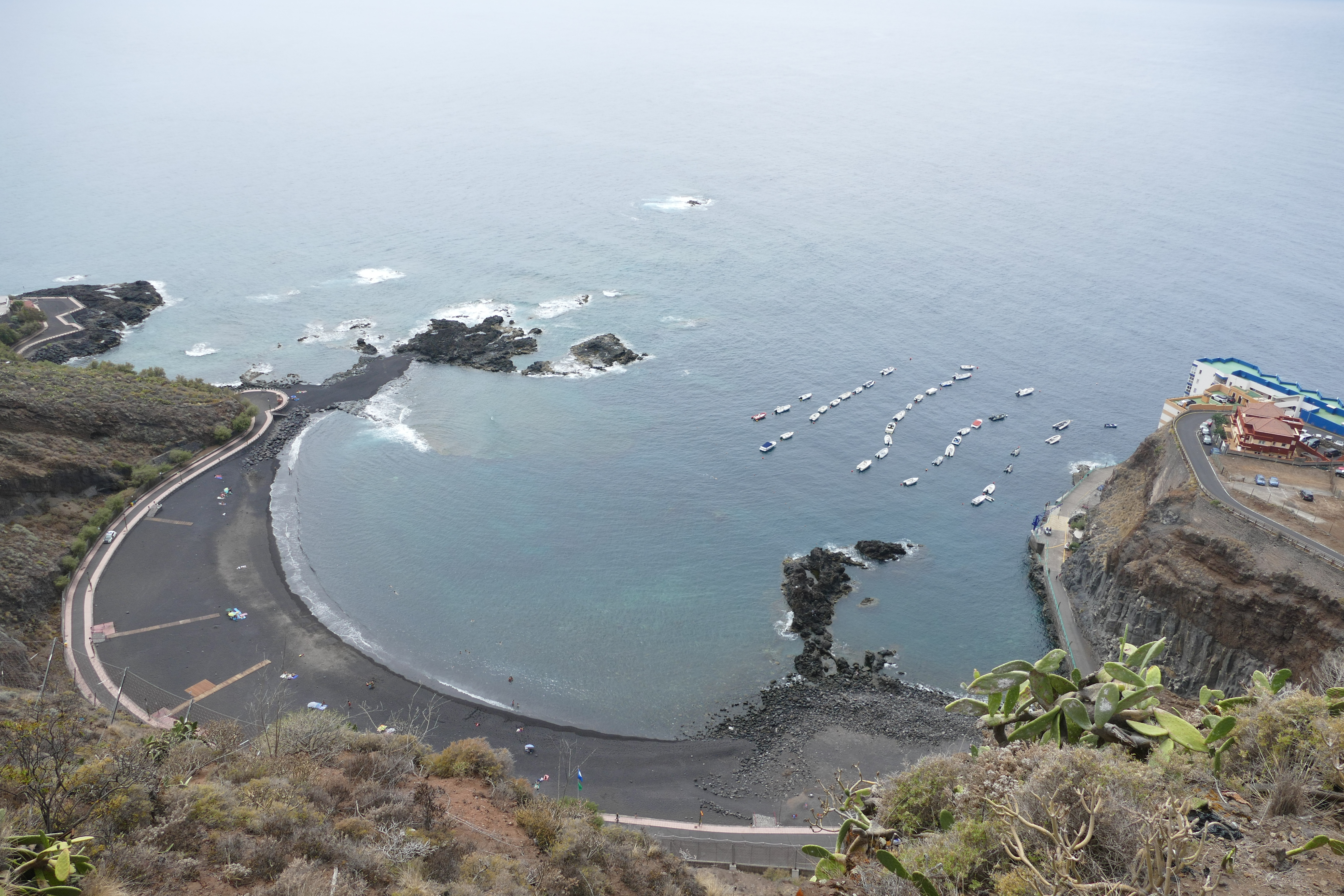 Playa La Arena from top